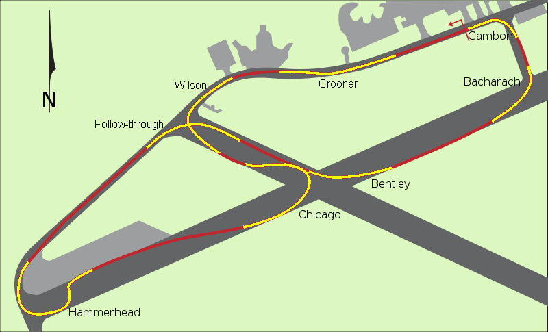 Top Gear Test Track, Piste d'essai de Top Gear